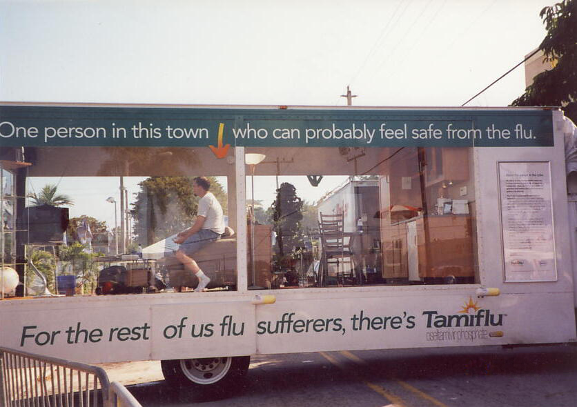 Promotional display trailer for Tamiflu, seen at Calle Ocho festival, Miami